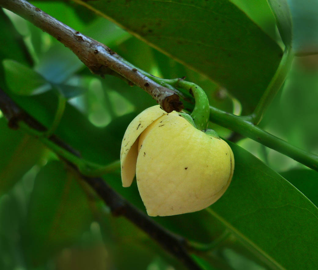 Annona glabra, flower, Guadeloupe